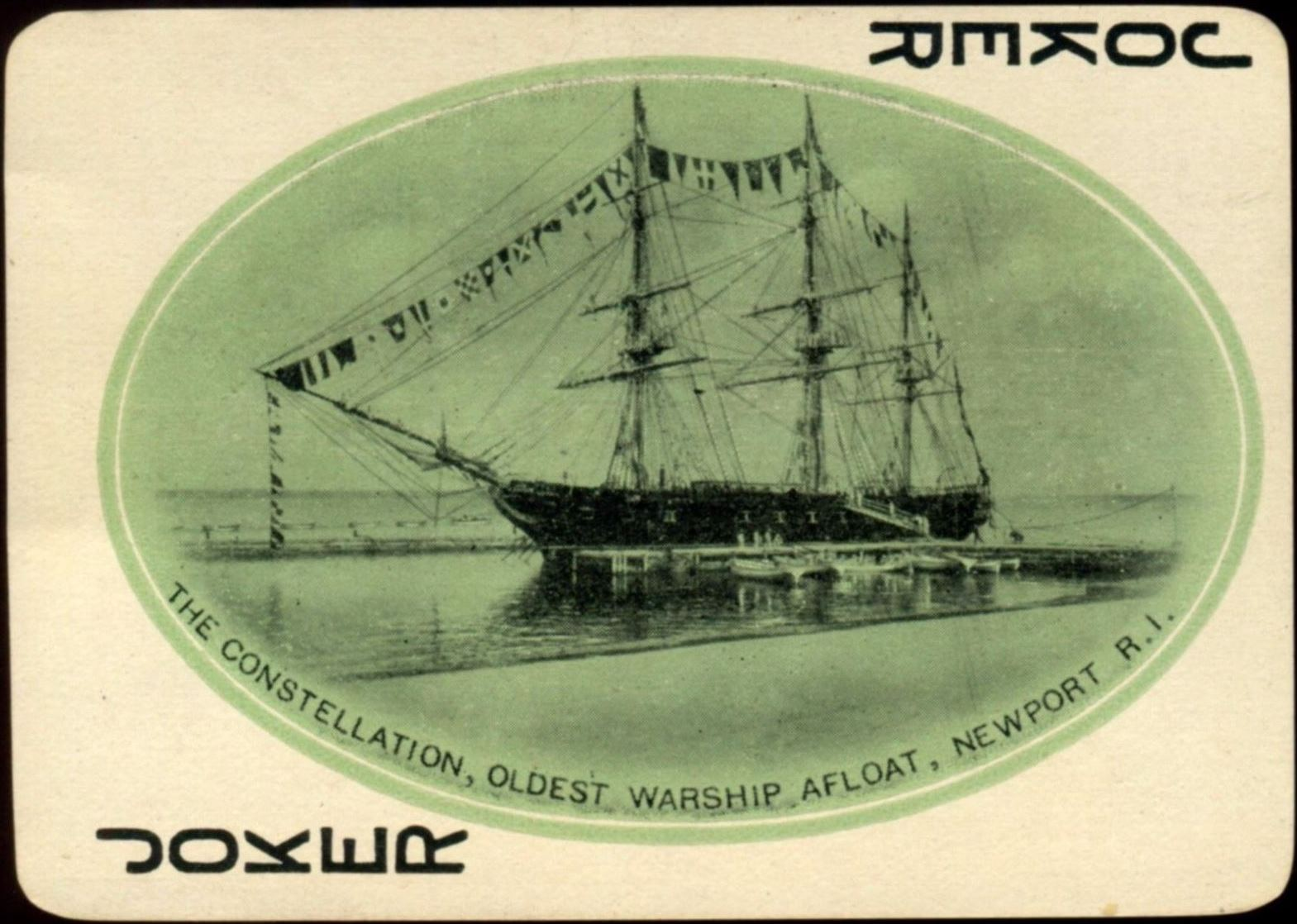 1910 Rhode Island souvenir playing card, Joker, "THE CONSTELLATION, OLDEST WARSHIP AFLOAT, NEWPORT R.I."